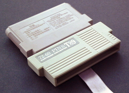 A picture of a T89 Cartridge Converter with a game plugged in. I believe it was purchased in Singapore around 1992. Photographed by myself (Jwdb).